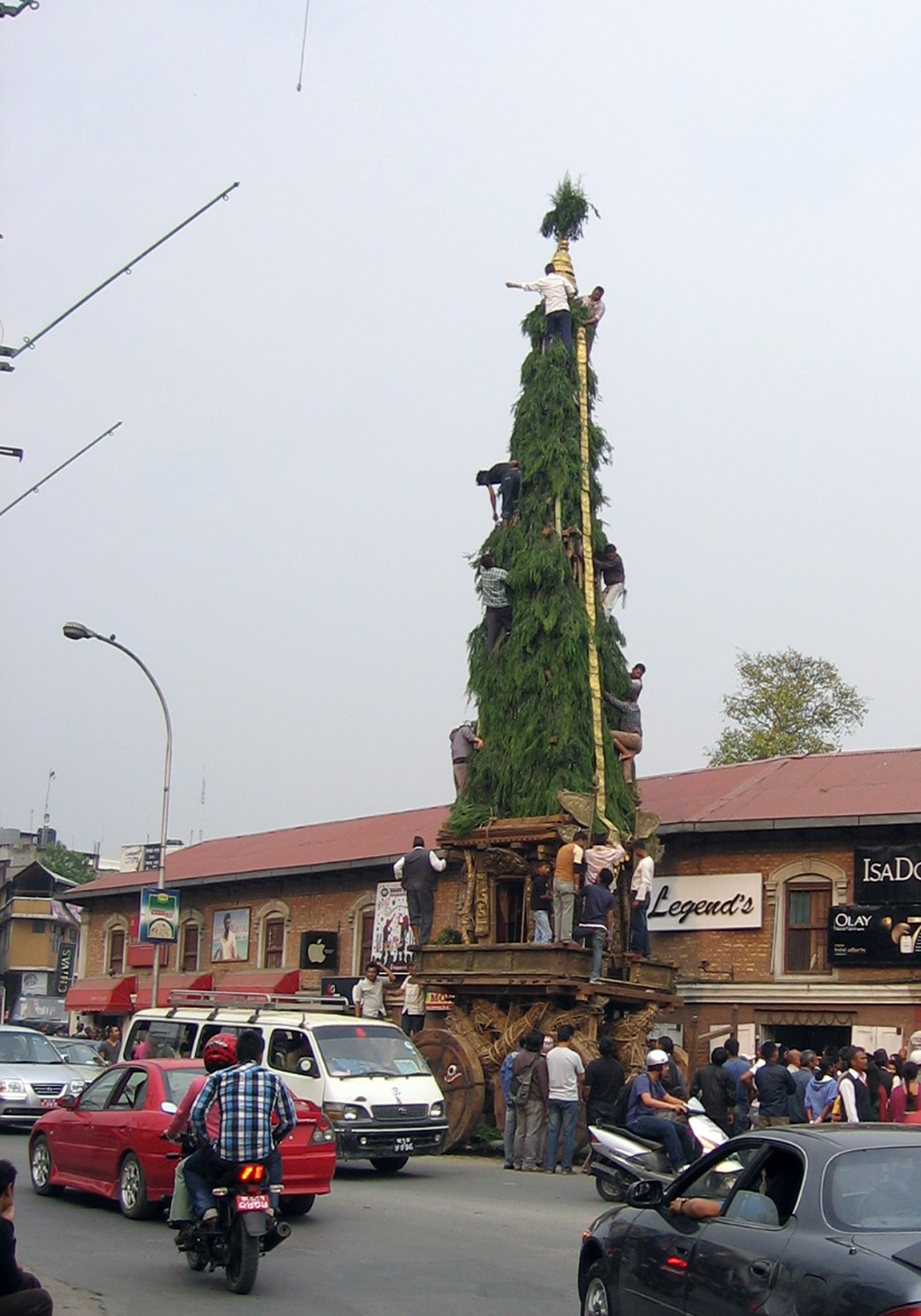 Chariot procession of Jana Baha Dyah (Aryavalokiteswara) at Durbar Marg, Kathmandu in 2011.